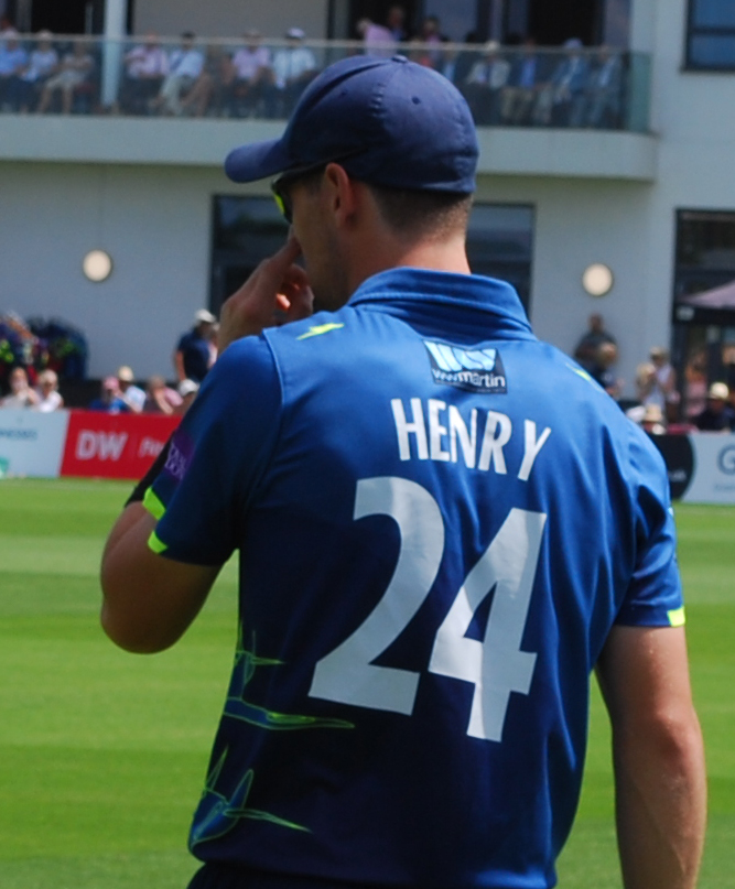 Matt Henry fielding for Kent at Beckenham, June 2018